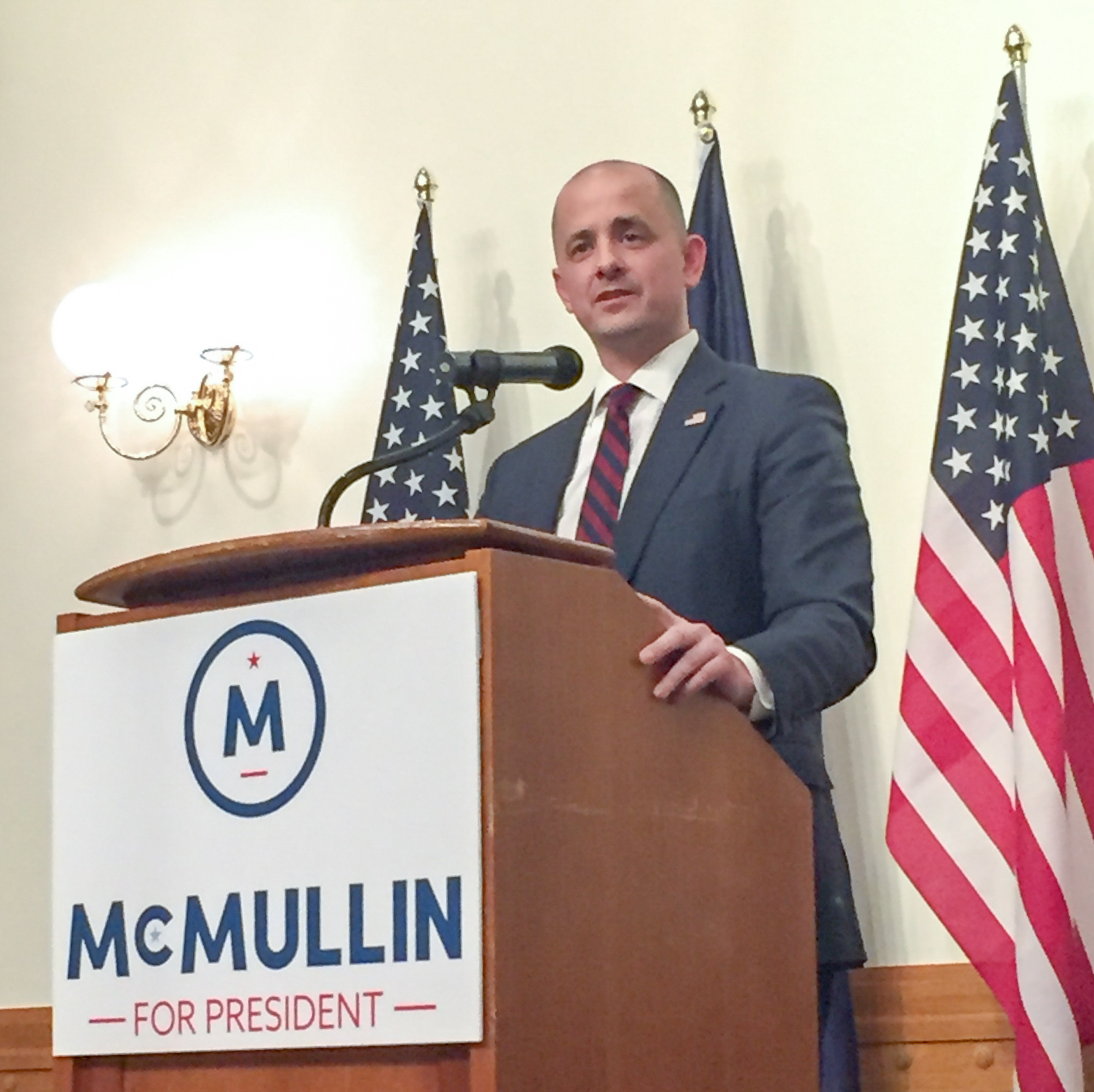 Evan McMullin at Provo rally on October 5, 2016.